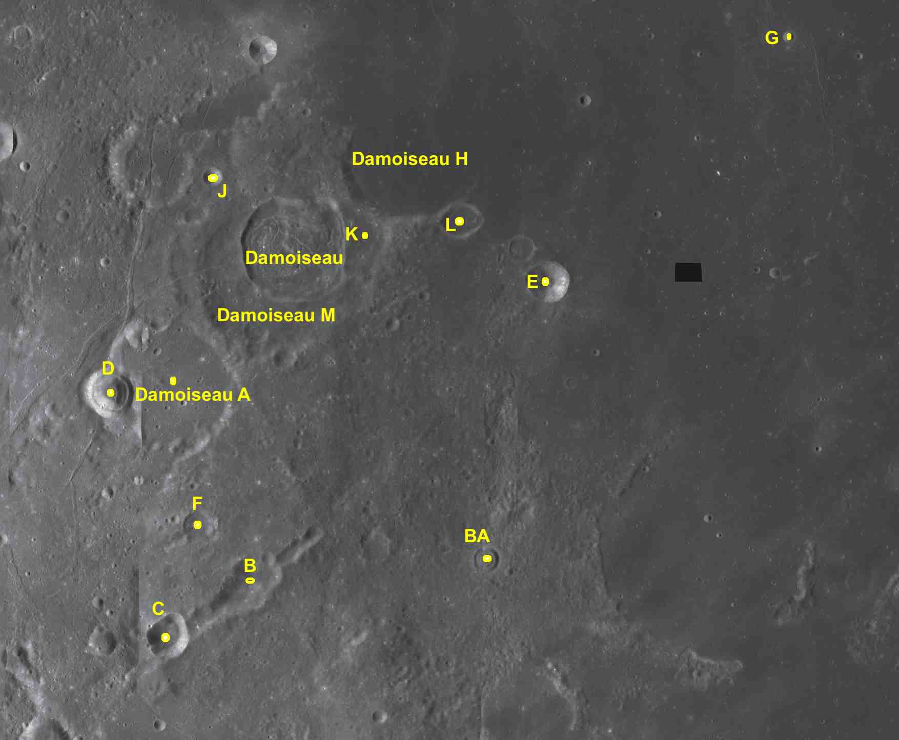 Part of the chart LAC-74 used for the presentation